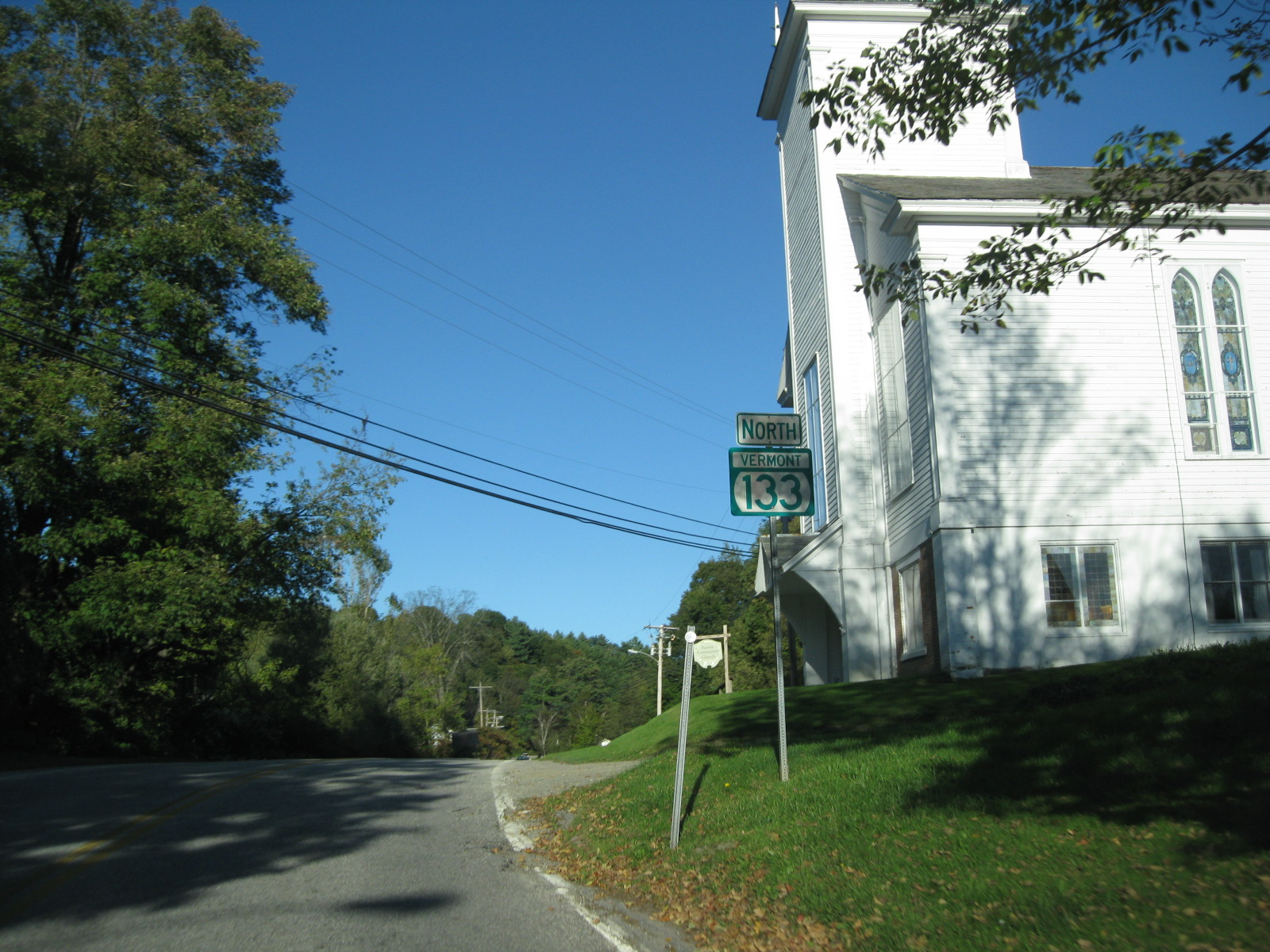 Route 133 heading through Pawlet, Vermont northbound with a large church in view.